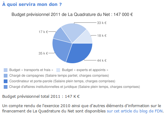 Diagram representation of La Quadrature du Net's budget for 2011. Screenshot from